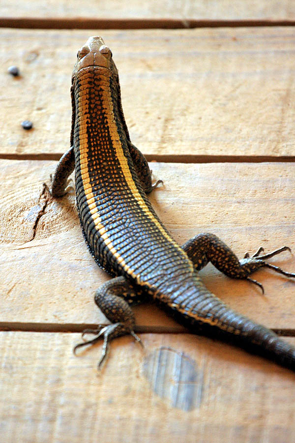 A Lined plated lizard, Zonosaurus laticaudatus at the Kirindy Forest Reserve, Madagascar